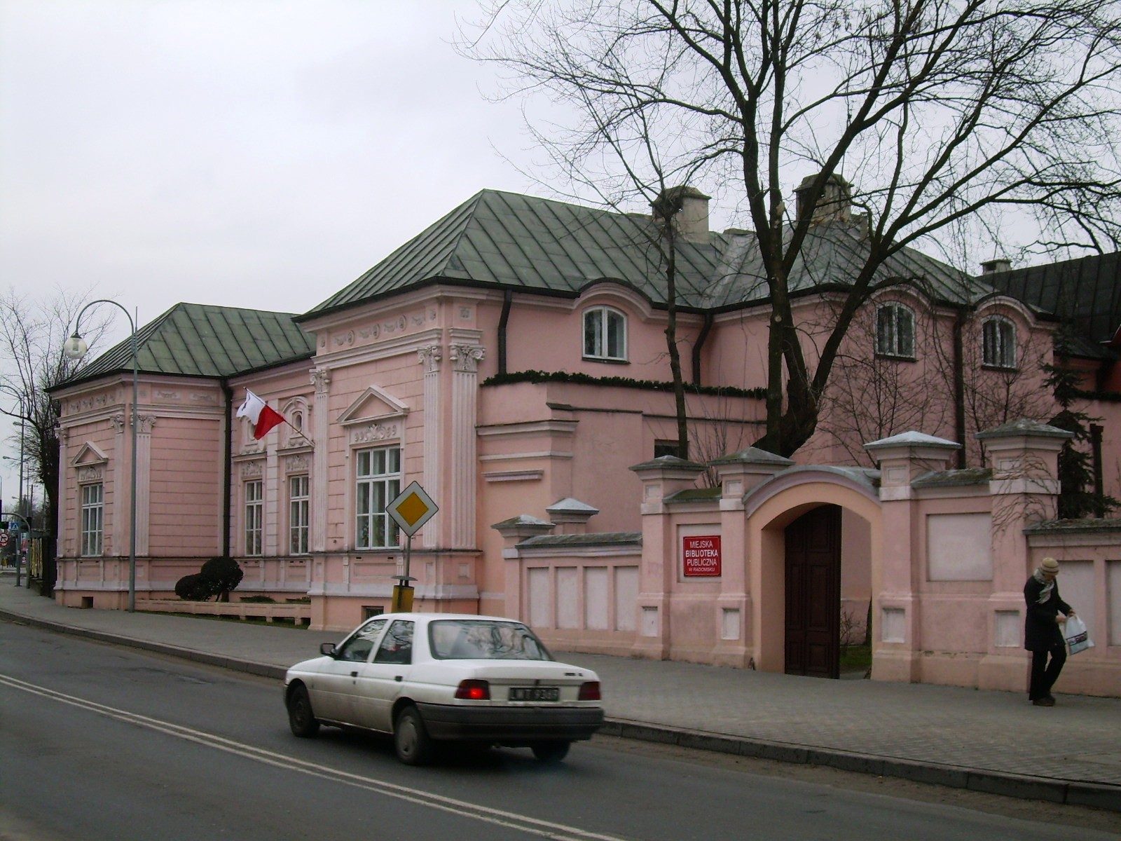 City Public Library in Radomsko (Poland).